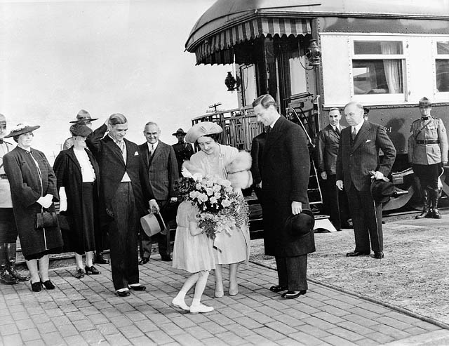 A little girl gives flowers to Queen Elizabeth (later the Queen Mother) as the King (immediately to right) Prime Minister WIlliam L. Mackenzie King (further to the right), and Hon. C.D. Howe (to left of Queen, behind man holding hat) on the 1939 Royal Visit to Canada